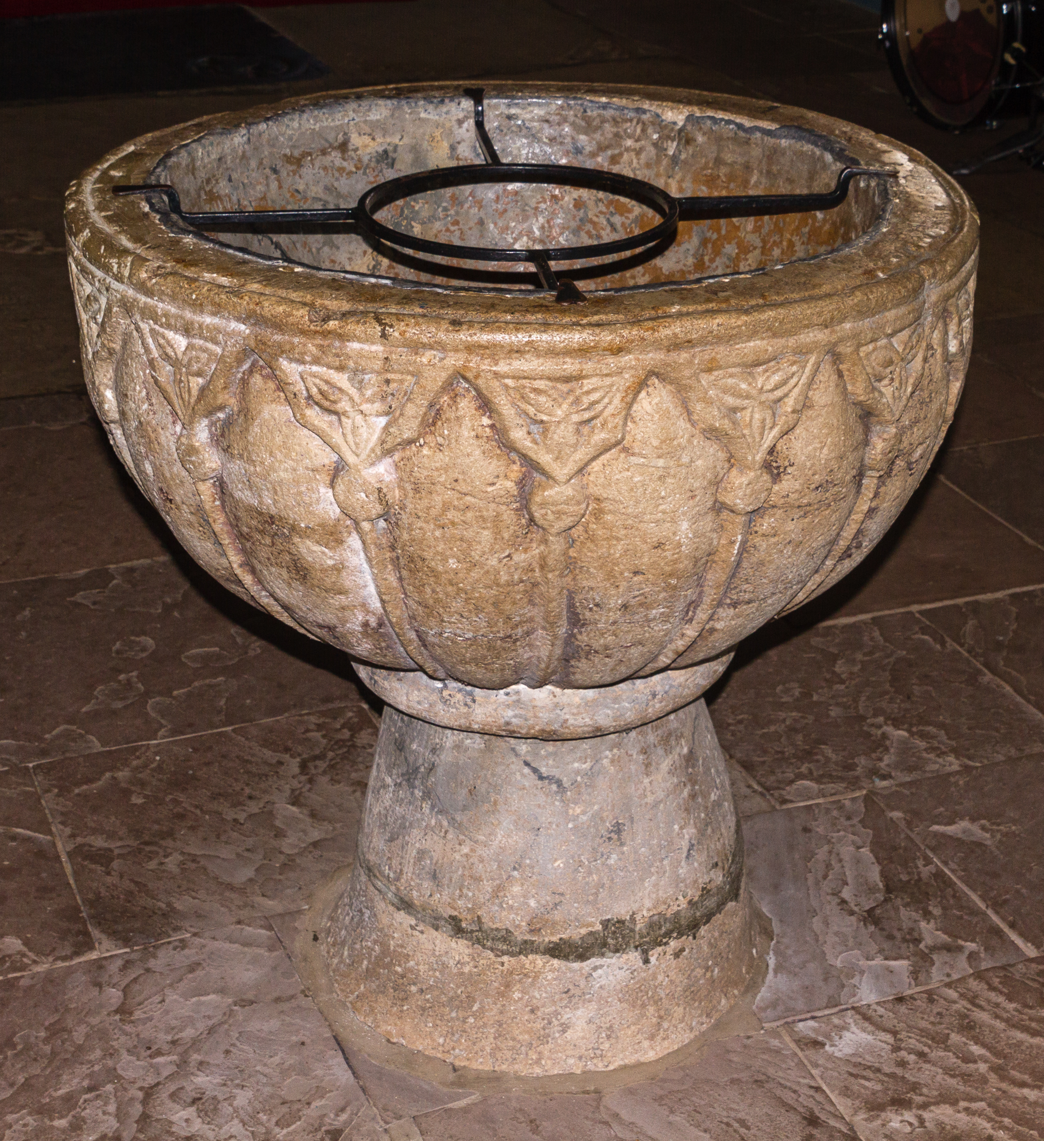 Designation: Church St. Nicolai with equipment Location: Kirchweg Place: Wyk-Boldixum, Collective municipality Föhr-Amrum, District Nordfriesland, Schleswig-Holstein, Federal Republic of Germany Construction time: 13th century Description: Romanesque church building with gothic and baroque extensions Object identification: 1510